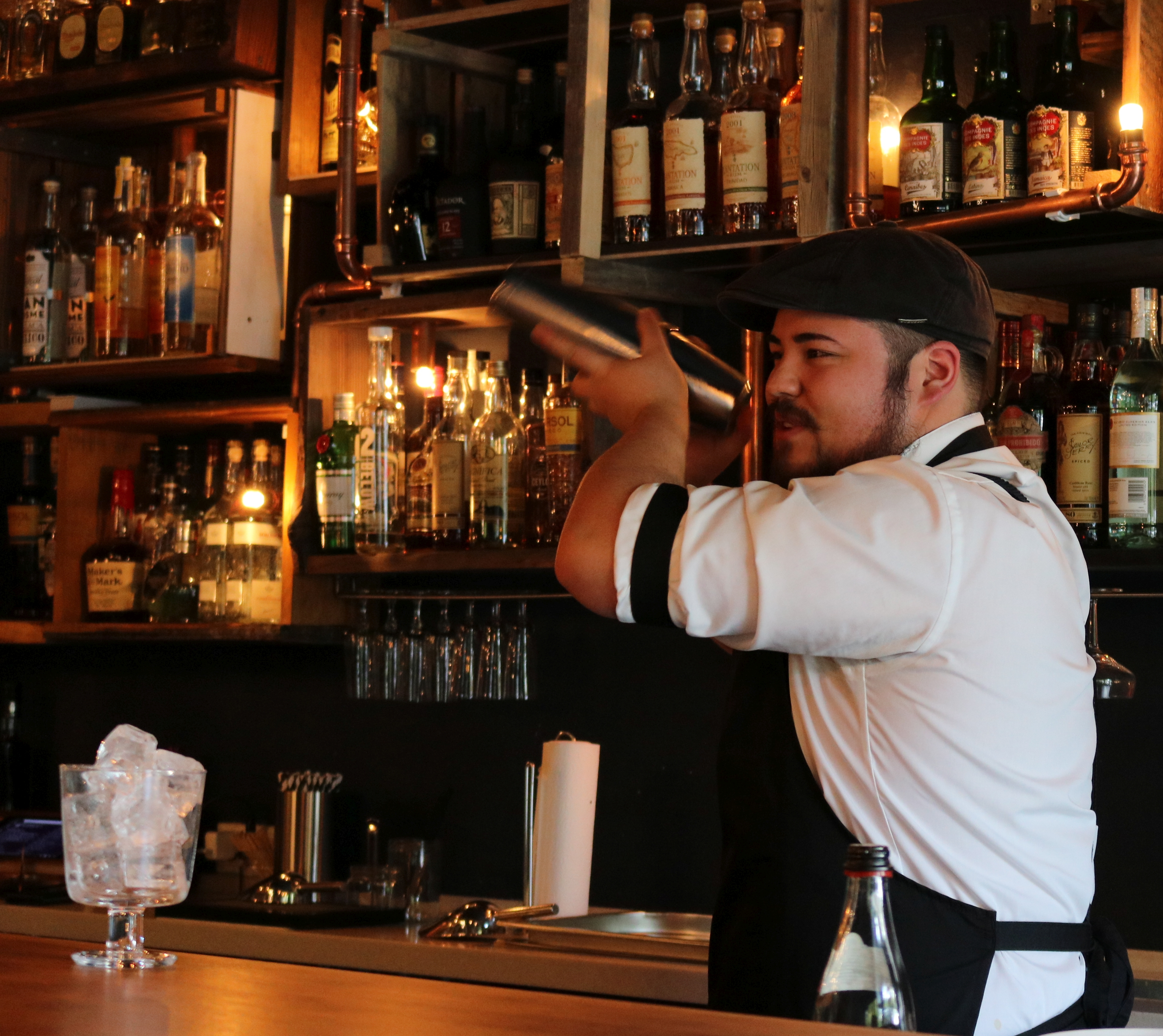 Barkeeper shaking a cocktail. The picture shows "Pät" (nickname), chef de bar in the bar "Kleines Phi", Hamburg, Germany.